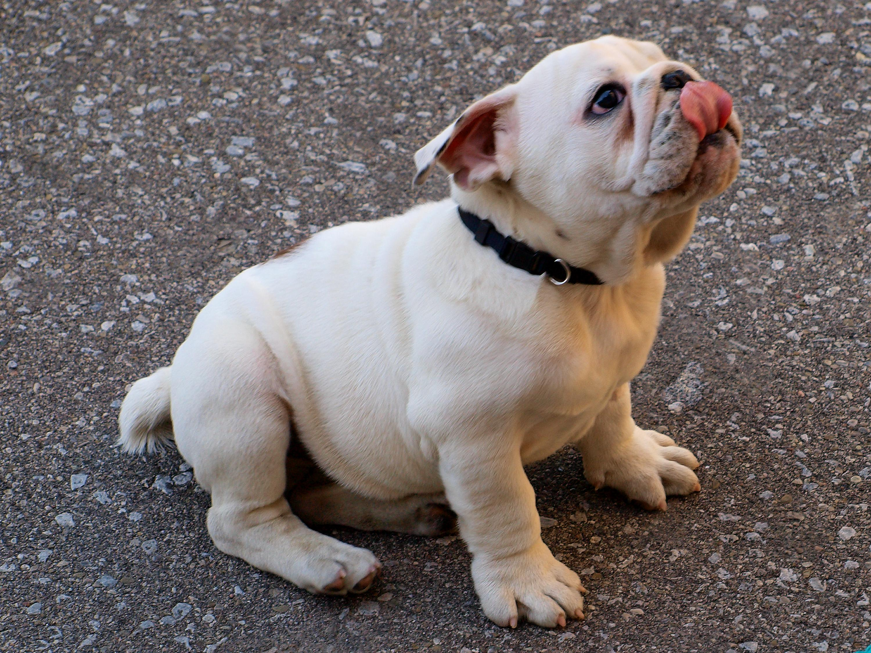 Rocco is the new pup on the block and he is such an adorable pup!